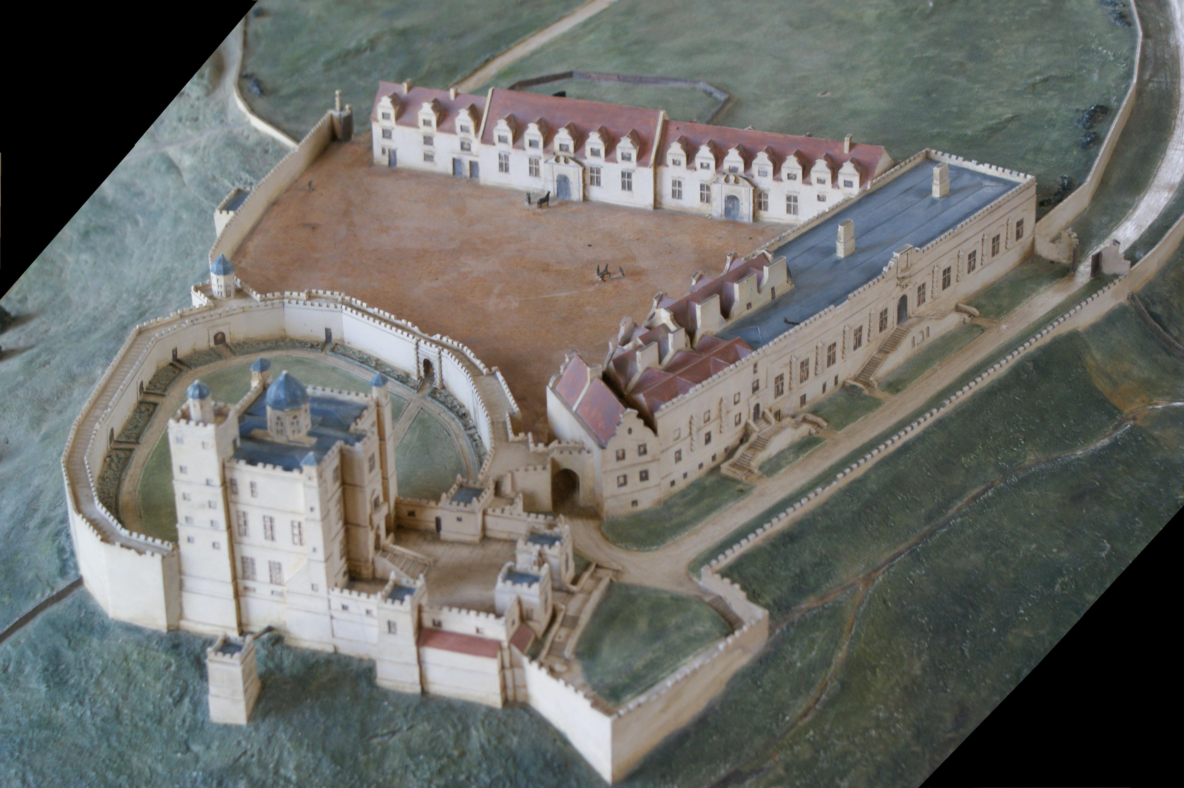 Bolsover Castle, 17th century Model of Bolsover Castle, as it may have looked in the late 1600s. Camera: Sony DSLR-A350 License on Flickr (2011-02-18): CC-BY-2.0 Flickr tags: bolsover, castle, model, replica, akdone, english heritage